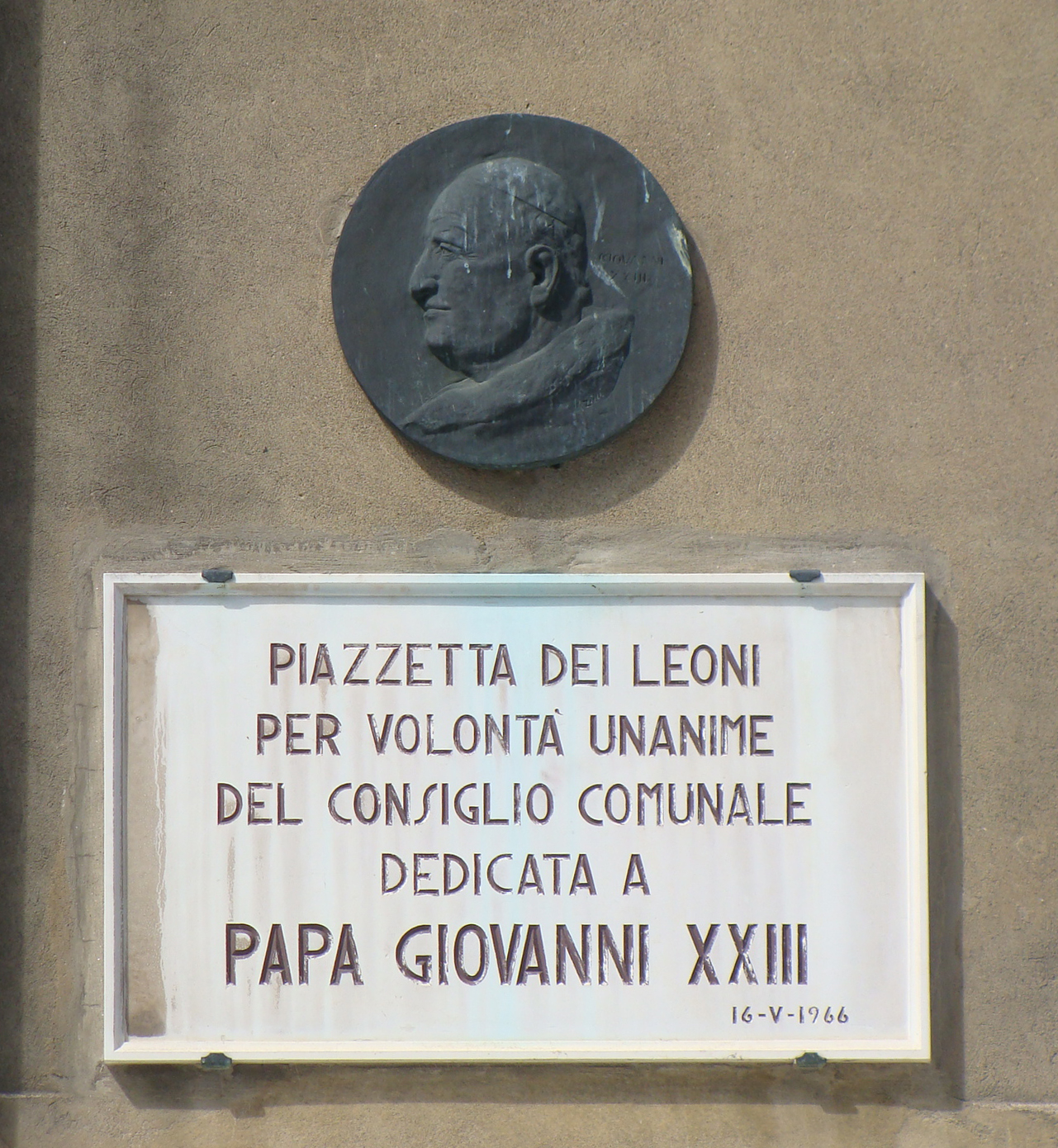 Relief and plaque of Pope John XXIII at Piazzetta dei Leoncini in Venice.